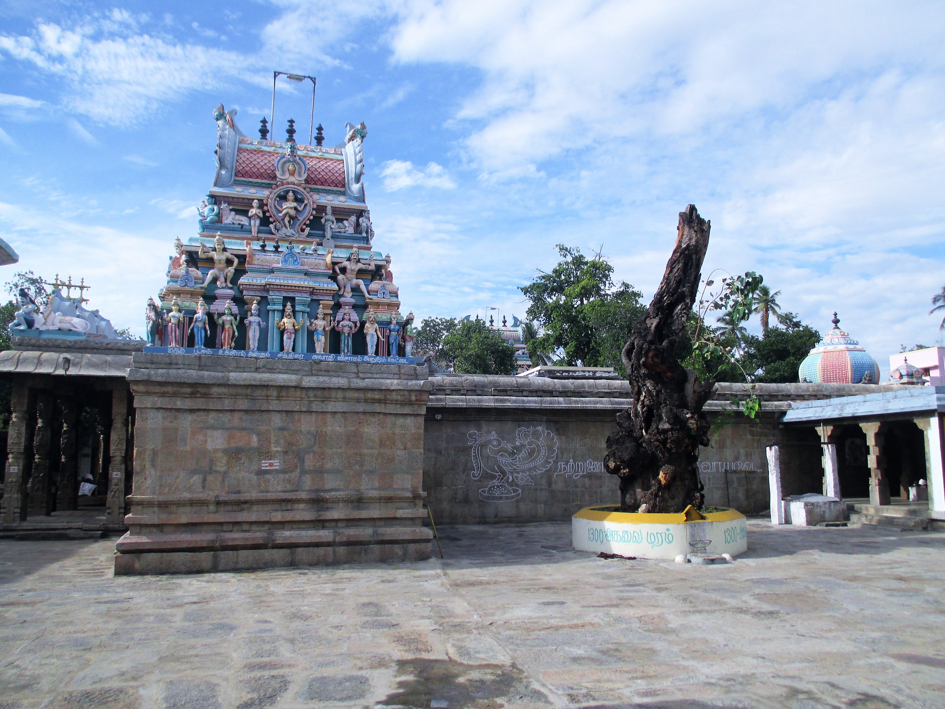 Thiruvalam temple